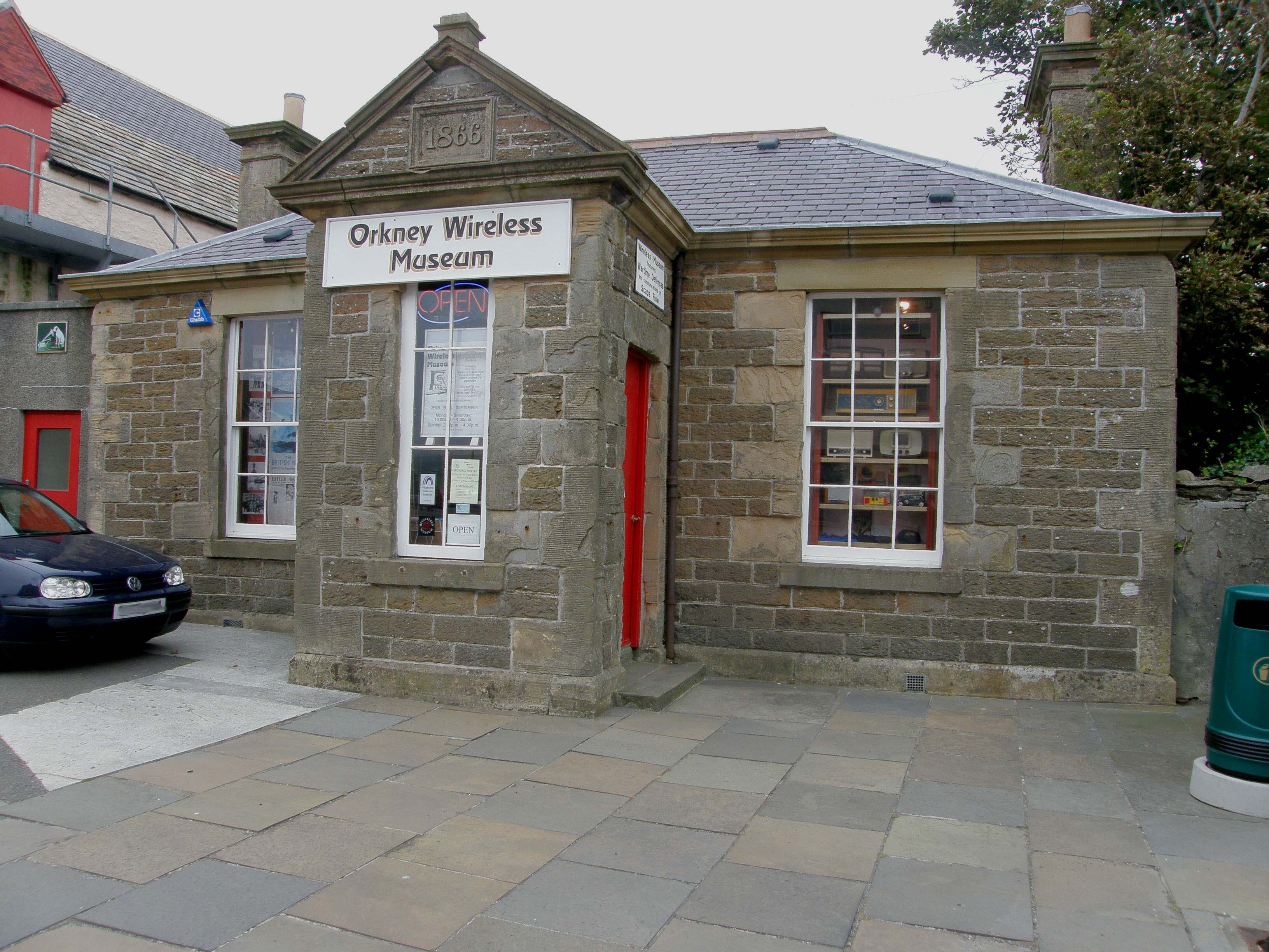 Orkney Wireless museum exterior